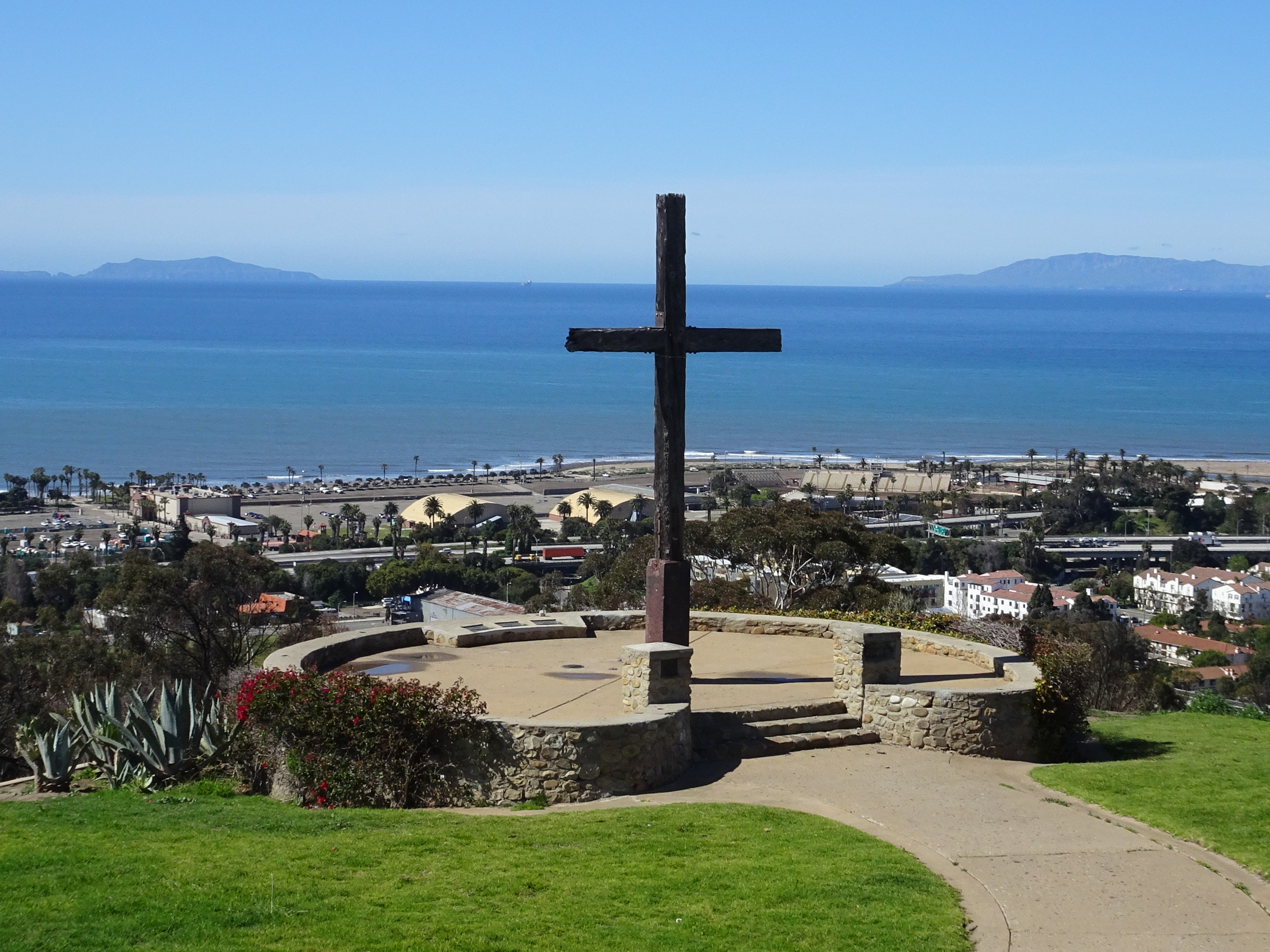 Father Serra Cross with Ventura County Fairground and Channel Islands in background